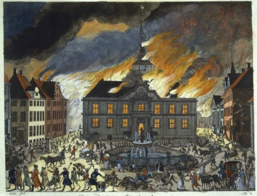 Copenhagen's fourth city hall burning at Nytorv during the Fire of 1795 in Copenhagen, Denmark